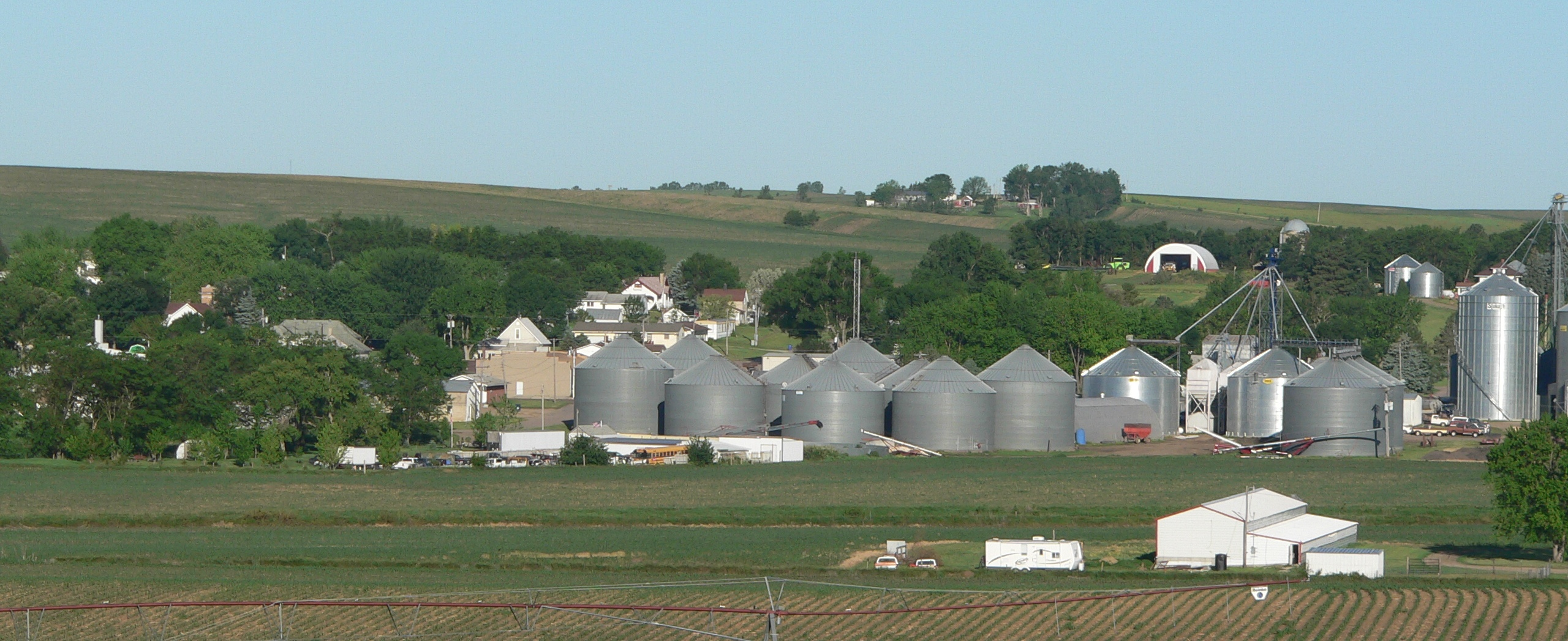 Northern portion of Carroll, Nebraska, seen from the east along county road 859 Rd.